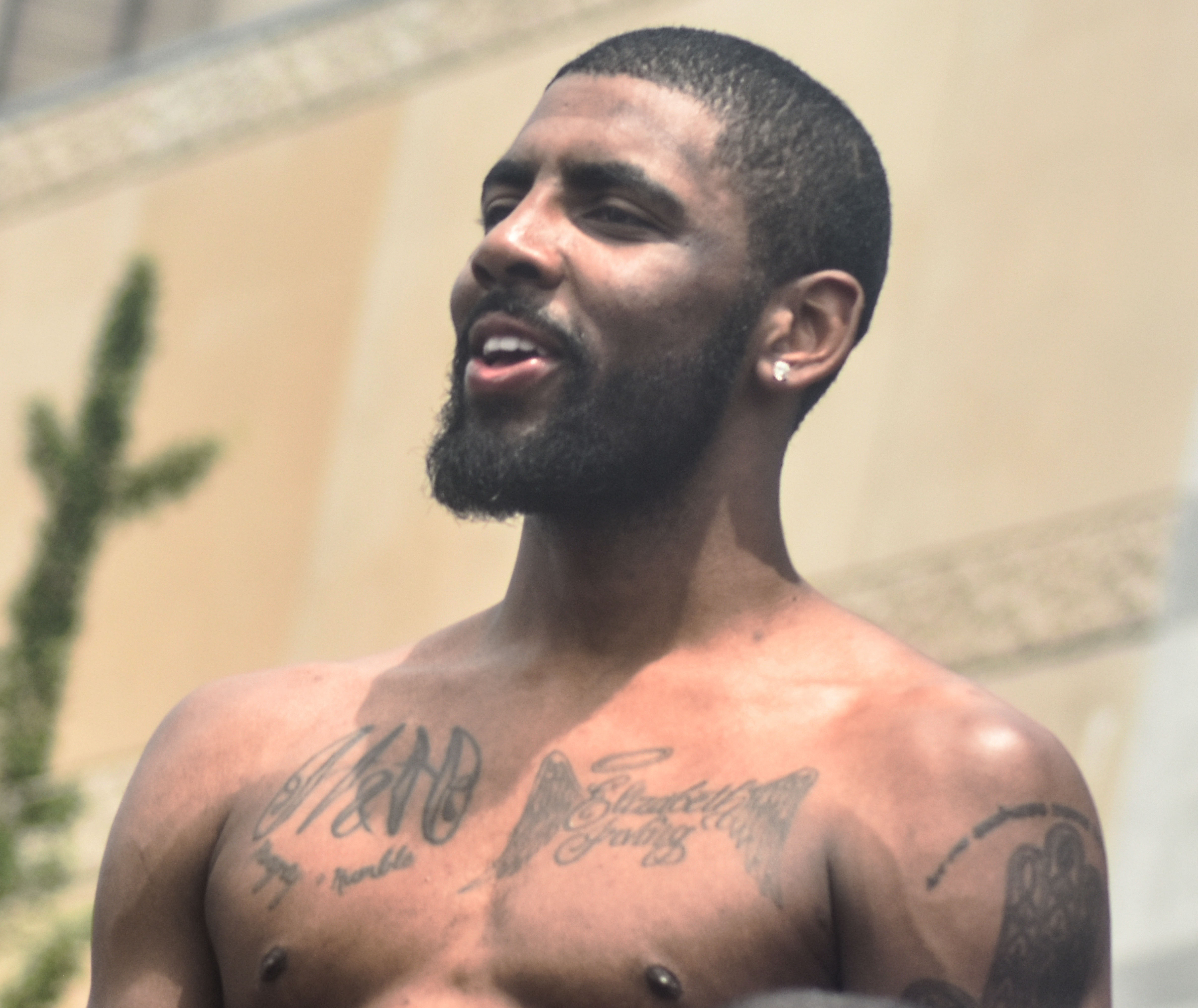 Kyrie Irving in June 2016